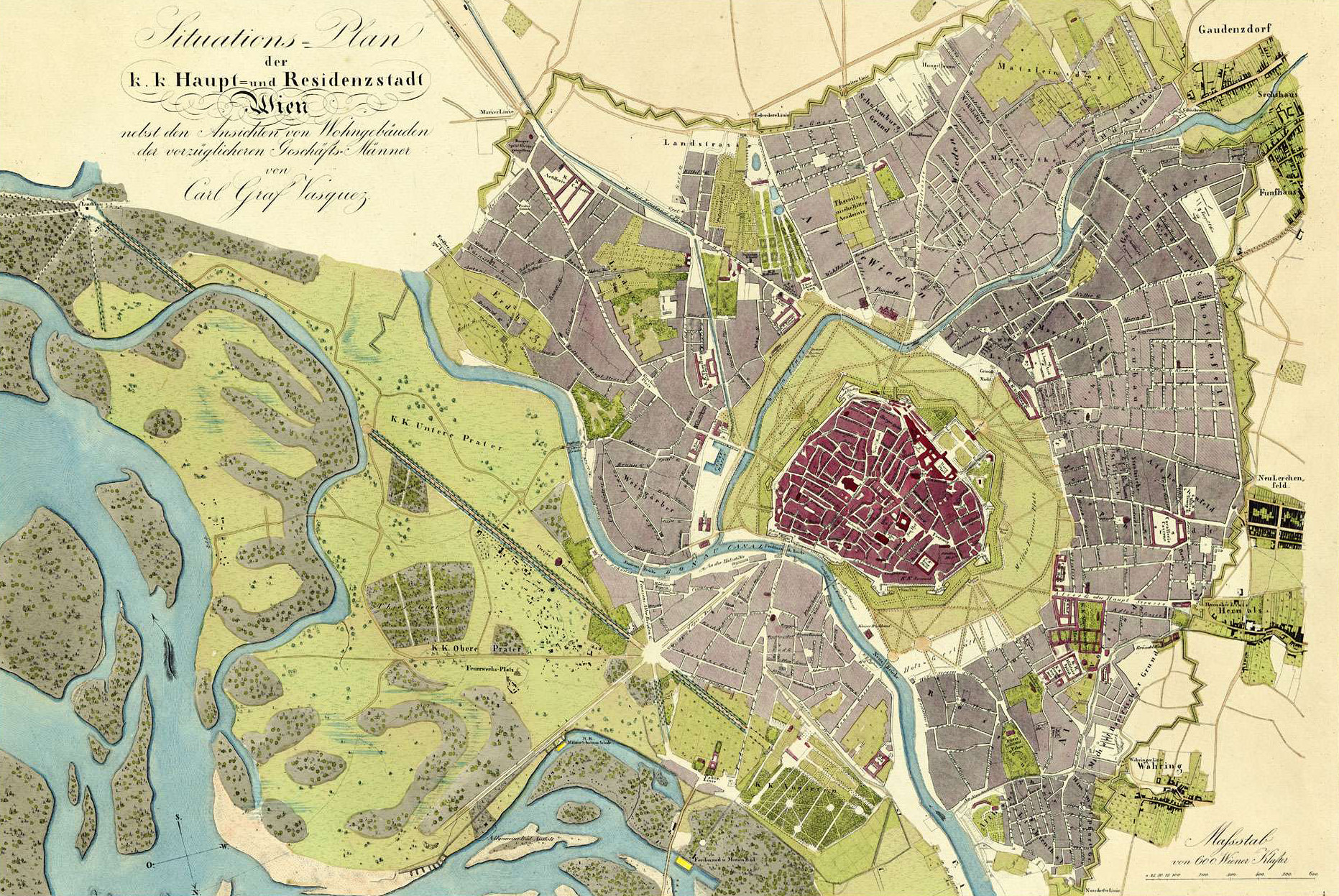 Map of Vienna, approx. 1830